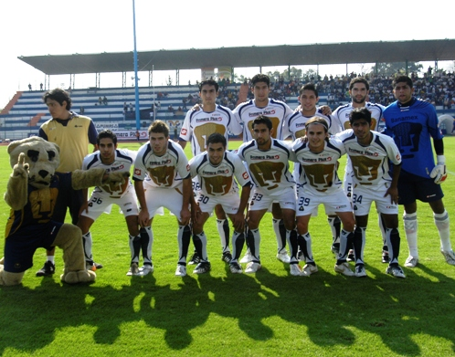 Equipo de los Pumas en el Estadio Centenario de Morelos.